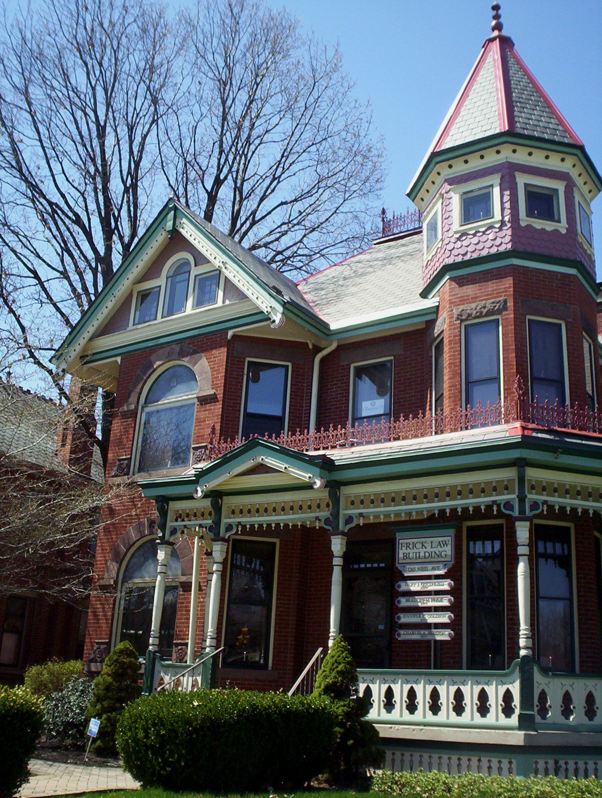 Frick Law Building